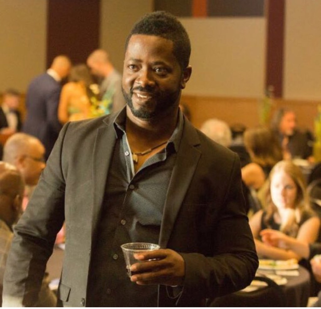 Humanitarian Ebeneezer Norman at a fundraising event in 2018